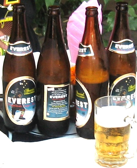 Everest Premium Lager Beer bottles and jar